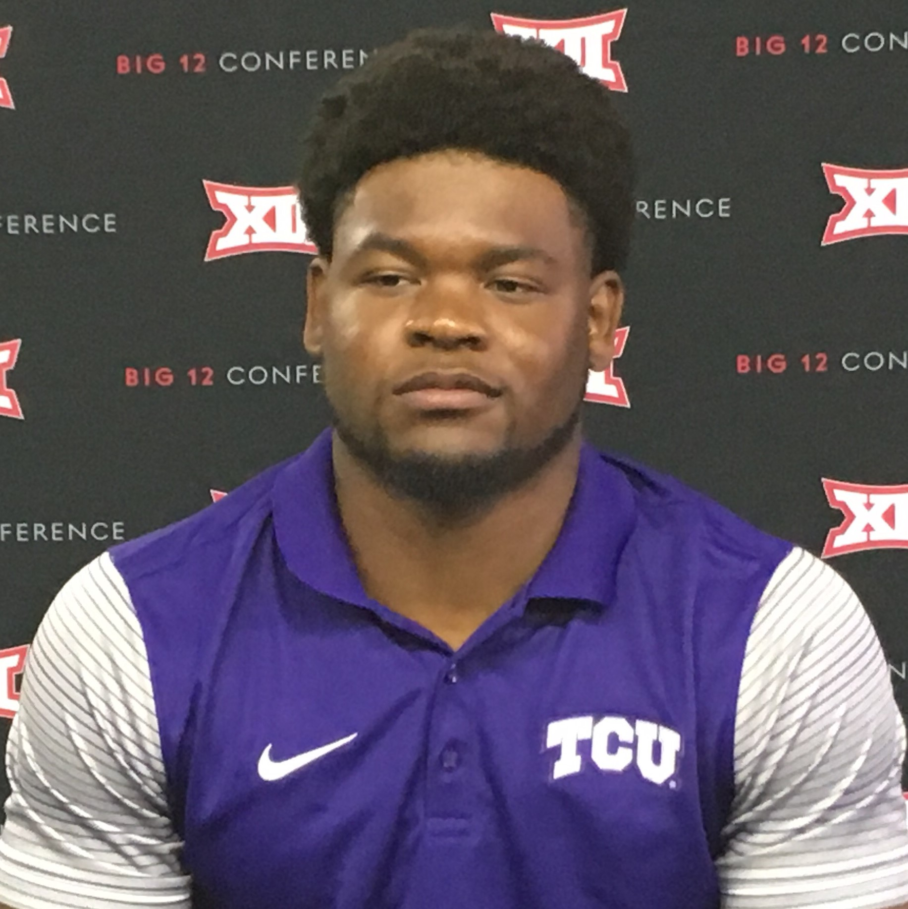 Travin Howard, linebacker of the TCU Horned Frogs football team, at the 2017 Big 12 Conference Media Days in Frisco, Texas.